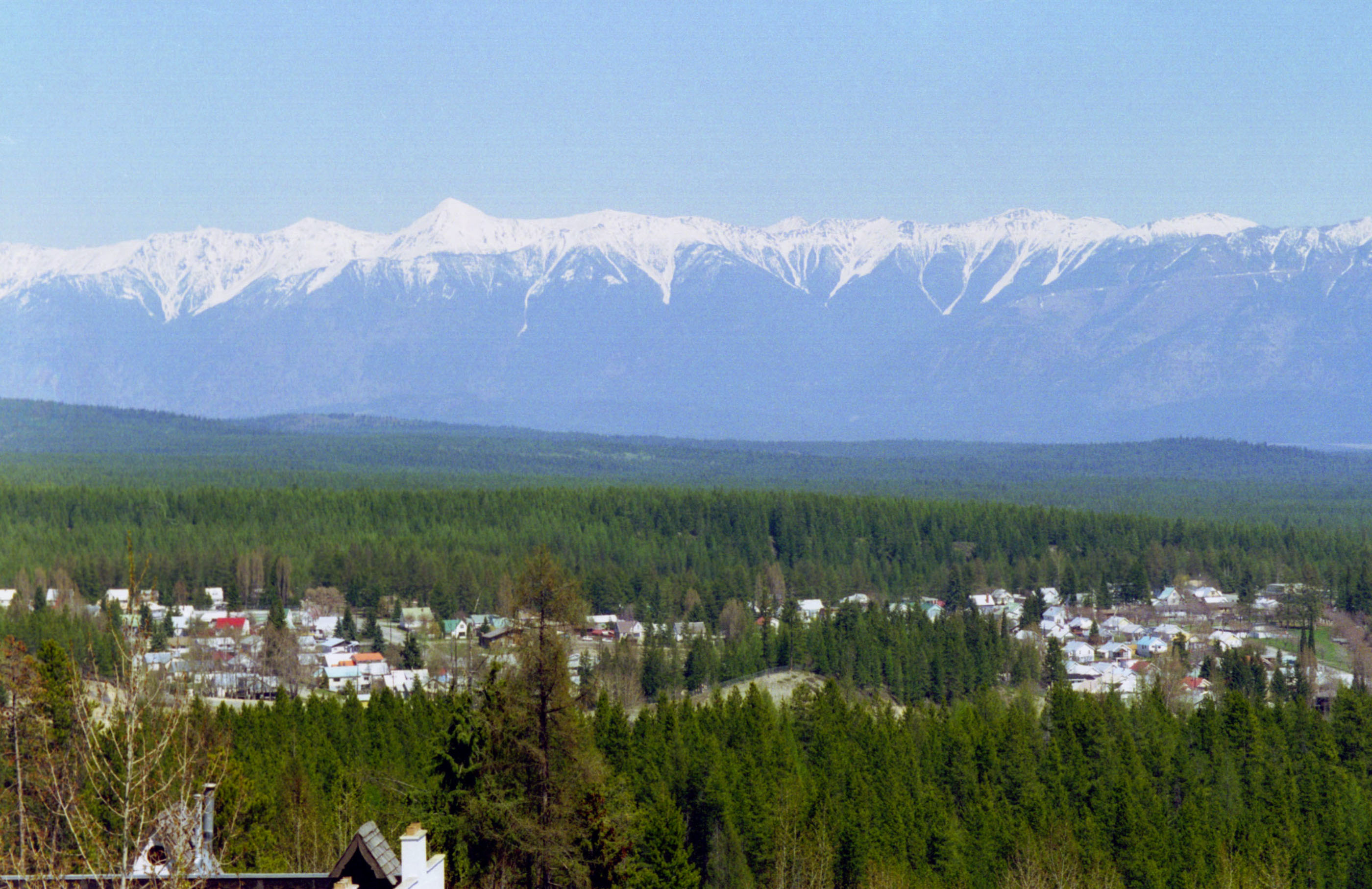 A view of the town of Kimberley, in British Columbia, Canada